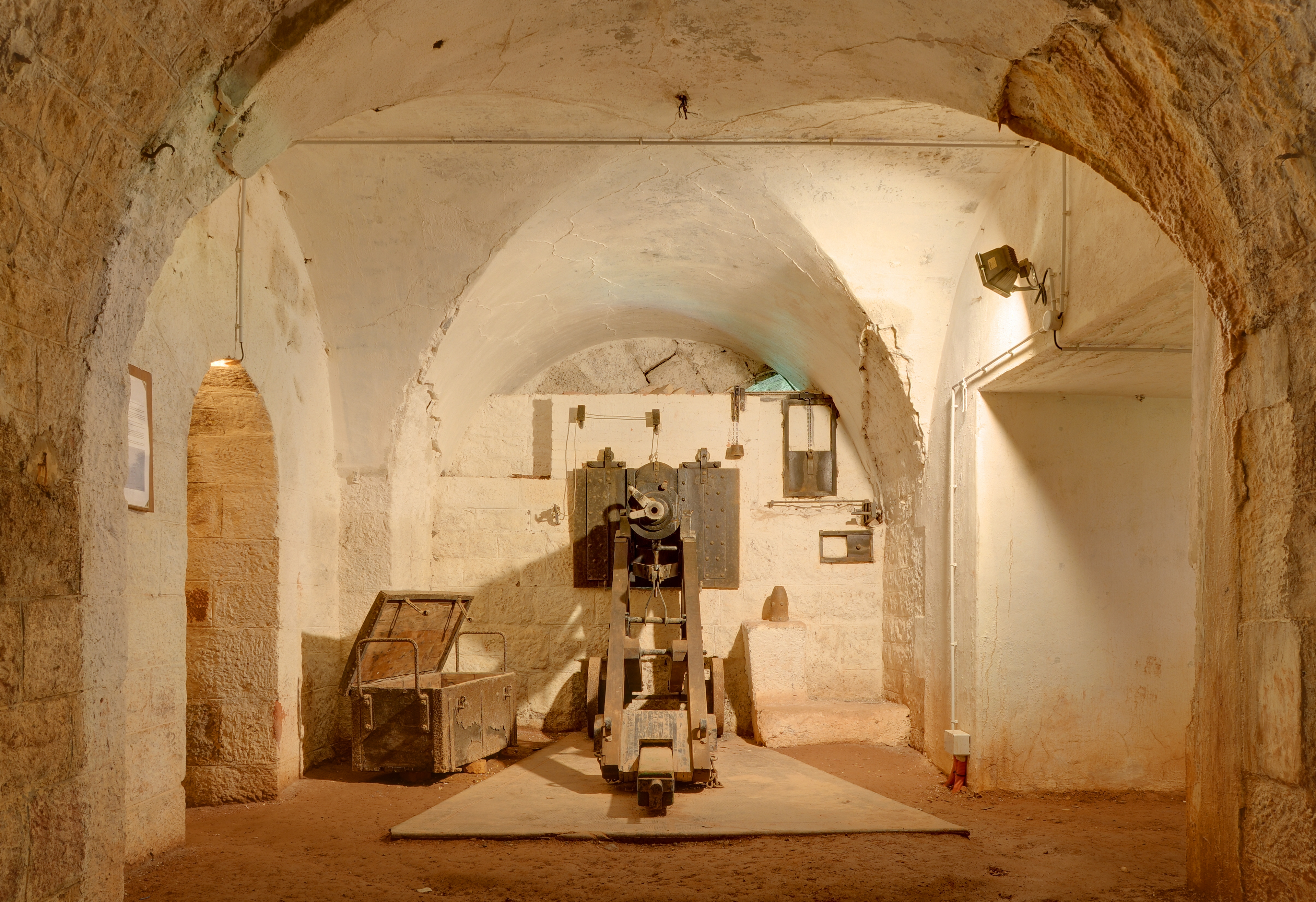 Fort de Giromagny, in the double Caponier: A Breech-loading Twelve-pound cannon